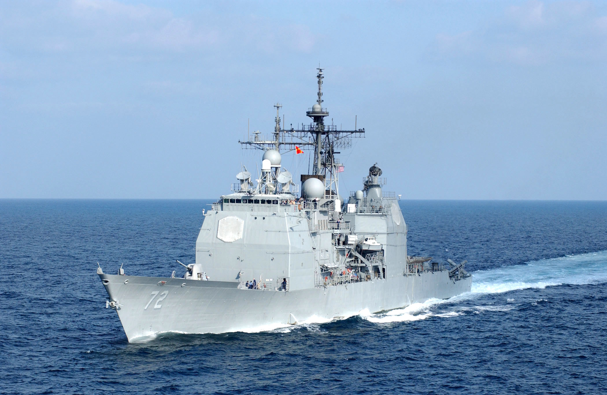 020124-N-6626D-502 Operation Enduring Freedom (Jan. 24, 2002) -- The guided missile cruiser USS Vella Gulf (CG 72) pulls along side USS Theodore Roosevelt (CVN 71). Guided missile cruisers perform primarily in a Battle Force role. These ships are multi-mission surface combatants capable of supporting carrier battle groups, amphibious forces, or while operating independently, serve as flagships for surface action groups. Due to their extensive combat capability, these ships have been designated as Battle Force Capable (BFC) units. The cruisers are equipped with "Tomahawk" long range strike mission capability. The Vella Gulf is part of the Roosevelt Battle Group deployed in support of Operation Enduring Freedom. U.S. Navy Photo by Photographer's Mate 3rd Class Amy DelaTorres. (RELEASED)